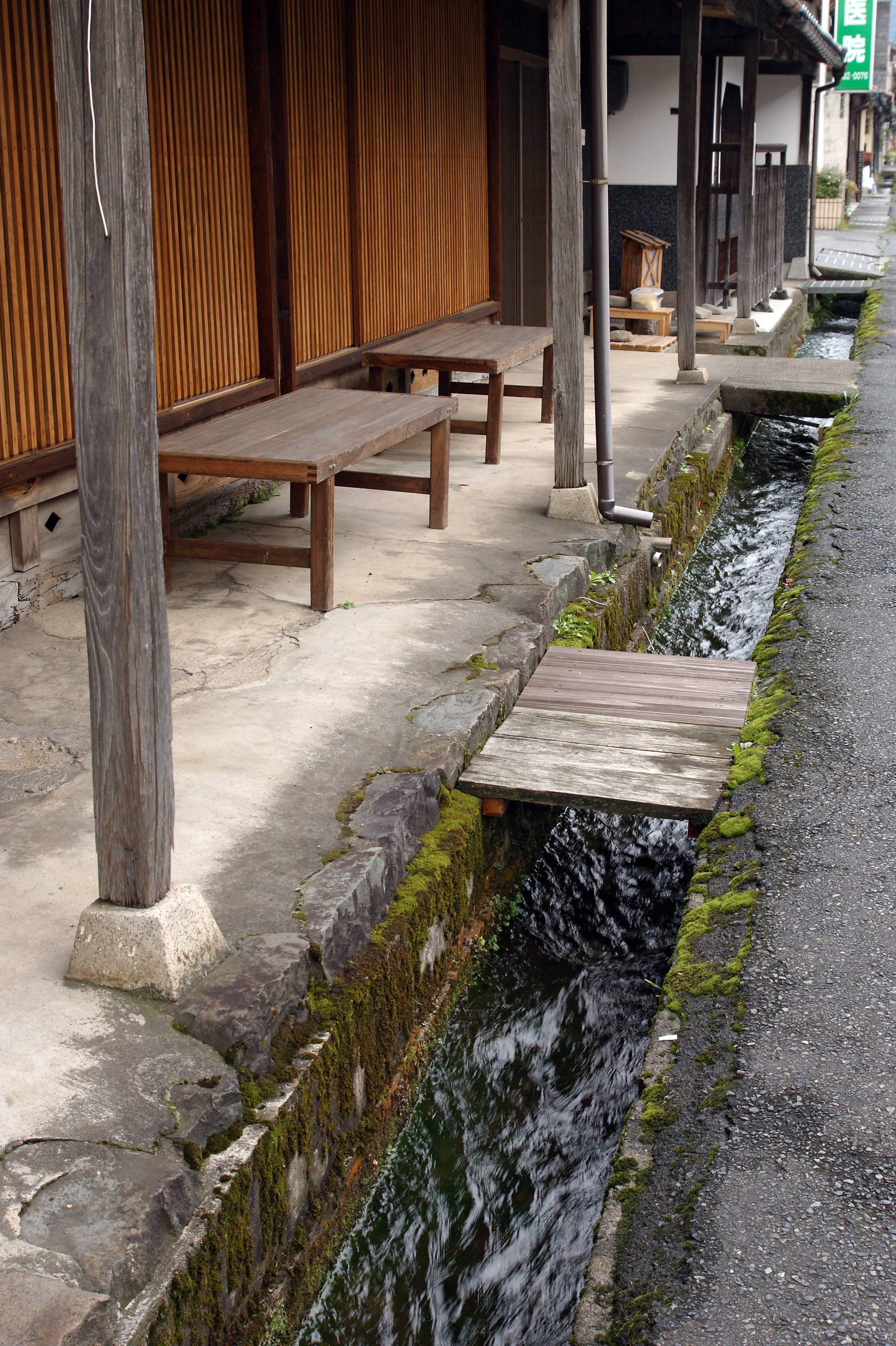 Wakasa-juku in Wakasa, Tottori prefecture, Japan